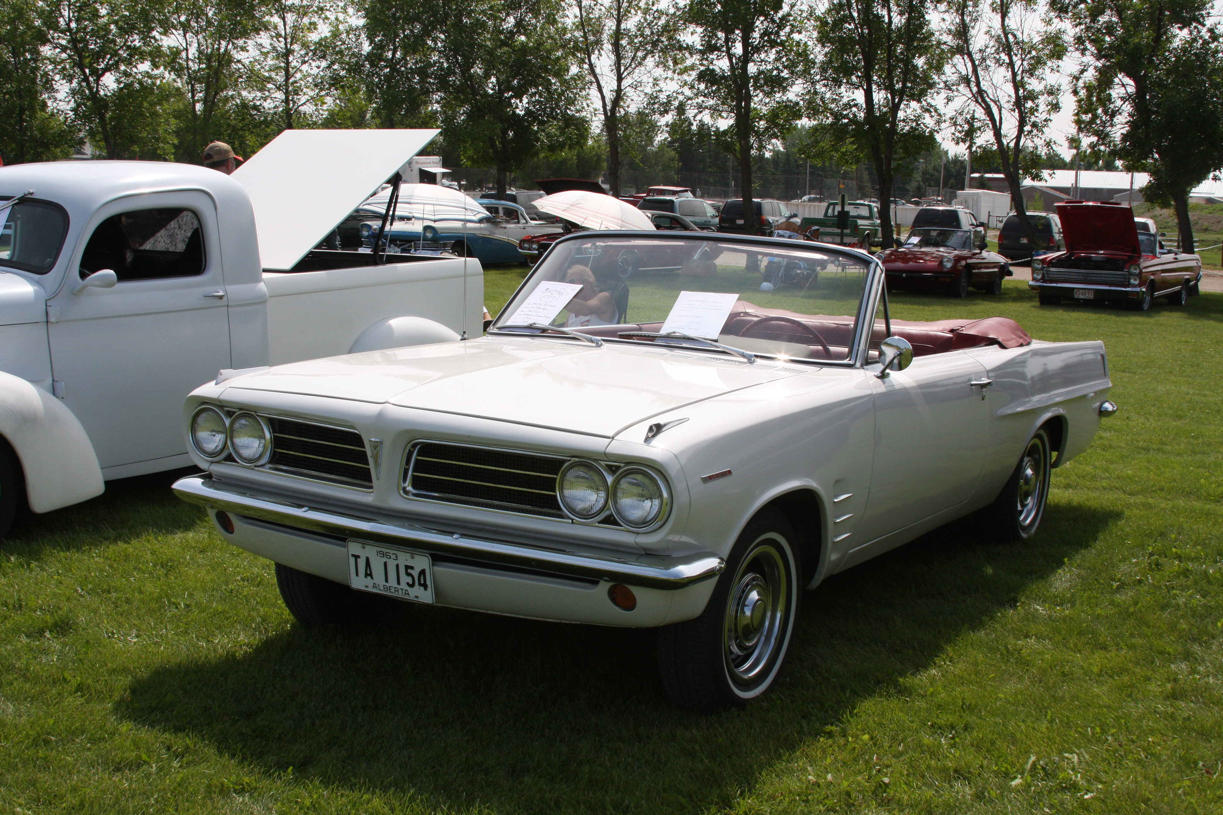 A very nice 1963 Pontiac Tempest with four cylinder power plus the "rope drive" and rear transaxle.